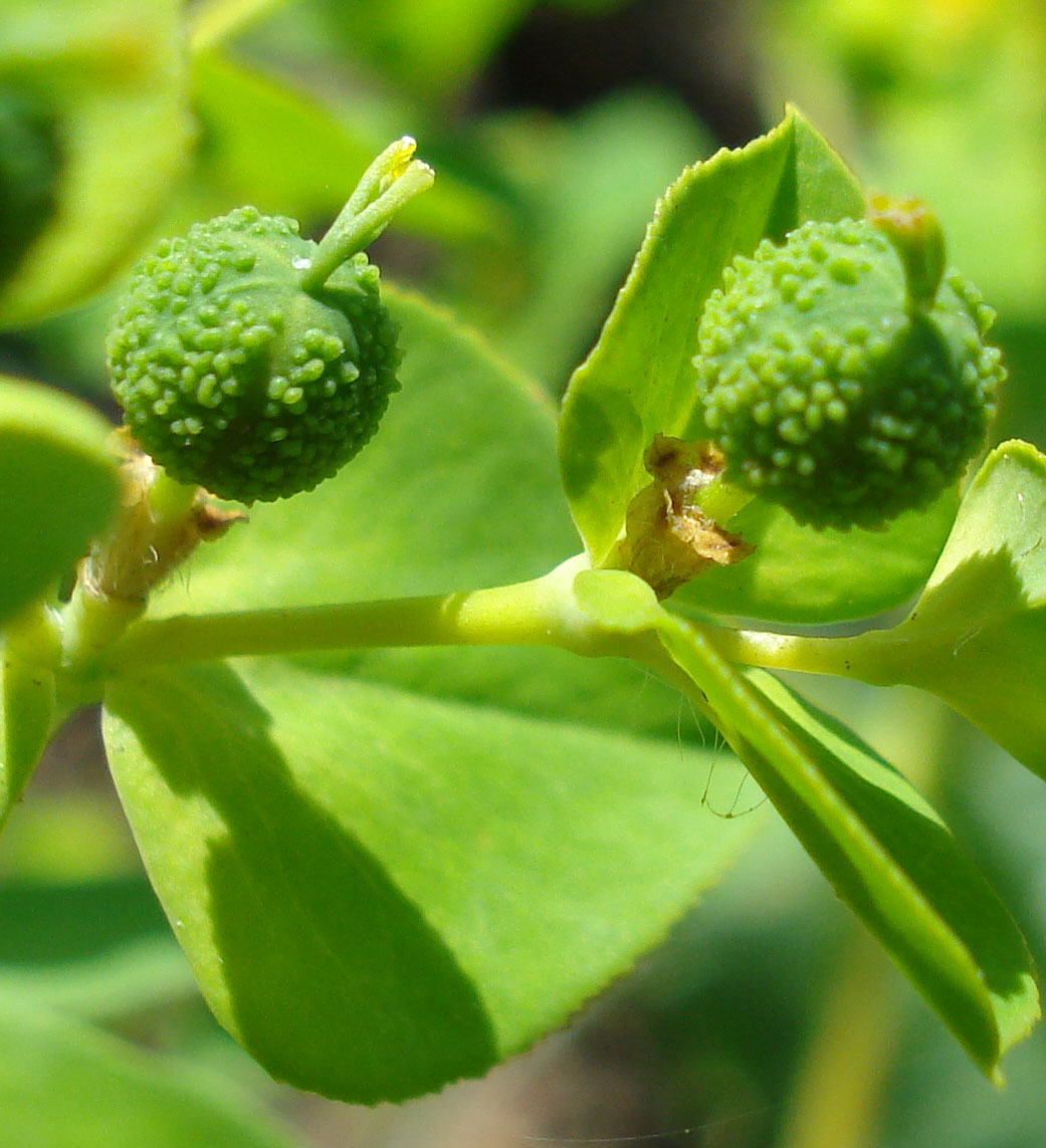 Euphorbia platyphyllos (Unterfranken, Germany)